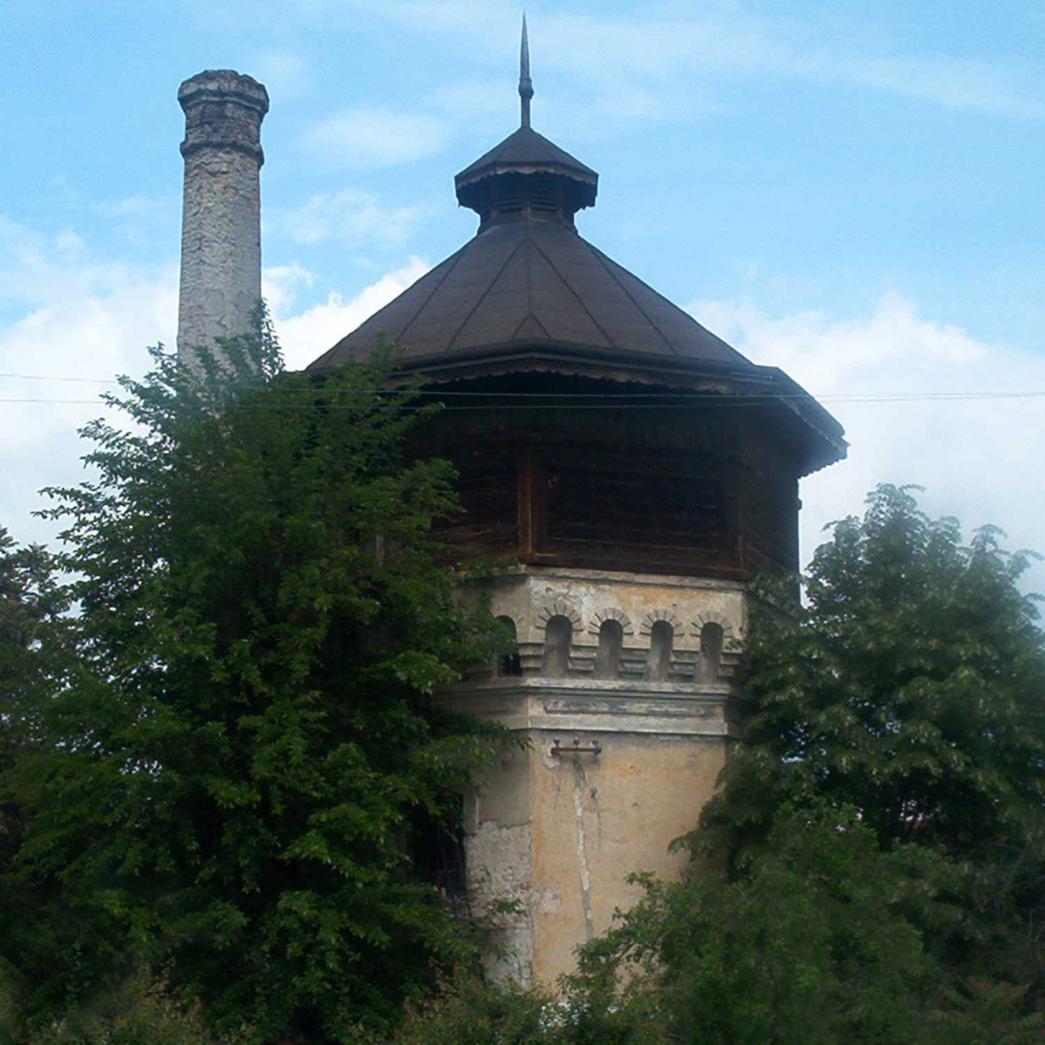 Water tower in Kragujevac